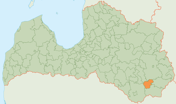 Map of Aglona